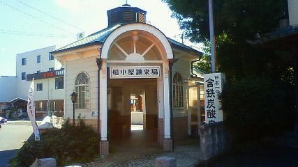 Funagoya Mineral spring place. Funagoya Mineral spring place, Chikugo.